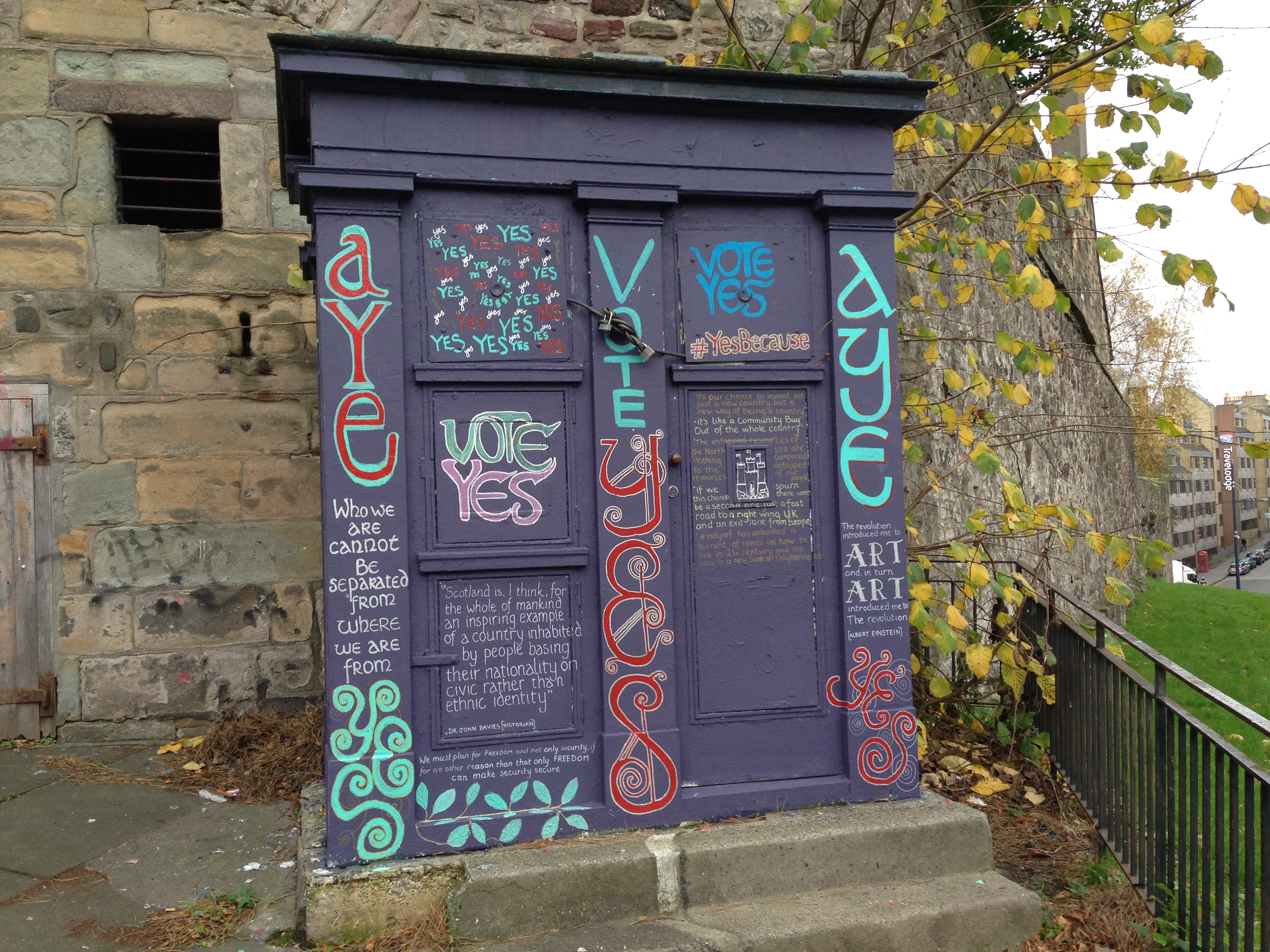 "Aye" painted policebox at Flodden Wall, Edinburgh. Scottish Indepence Referendum 2014 #IndyRef